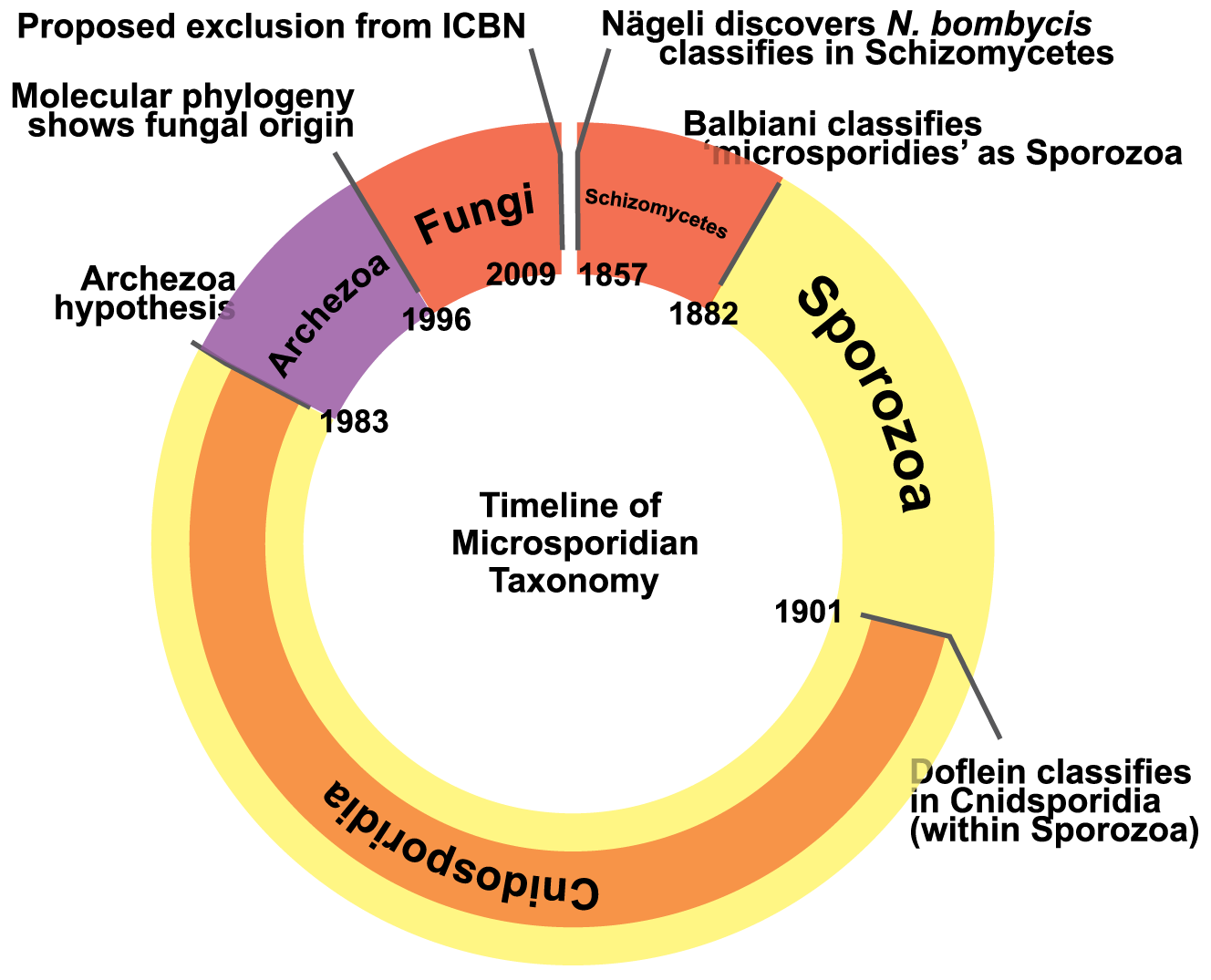 Timeline of the changing taxonomic position of microsporidia, from their discovery in 1857 to the present.